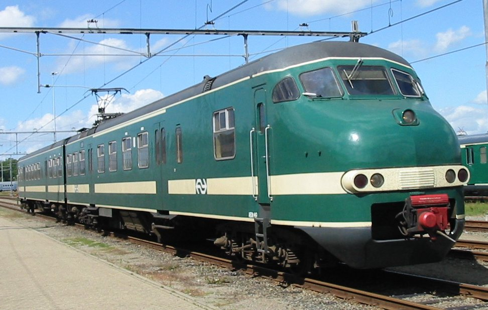 Green Mat'64 (Plan V) EMU 419 at Watergraafsmeer.